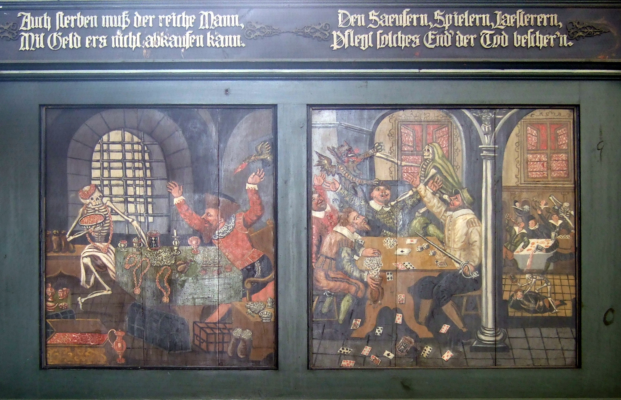 Totentanz-Gemälde in der Petrikirche, D-17438 Wolgast, Germany. Reicher - Säufer, Spieler, Lästerer